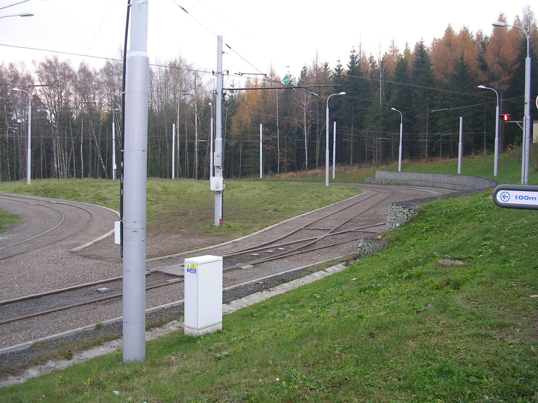 Tram track loop Horní Hanychov, Liberec, the Czech Republic.